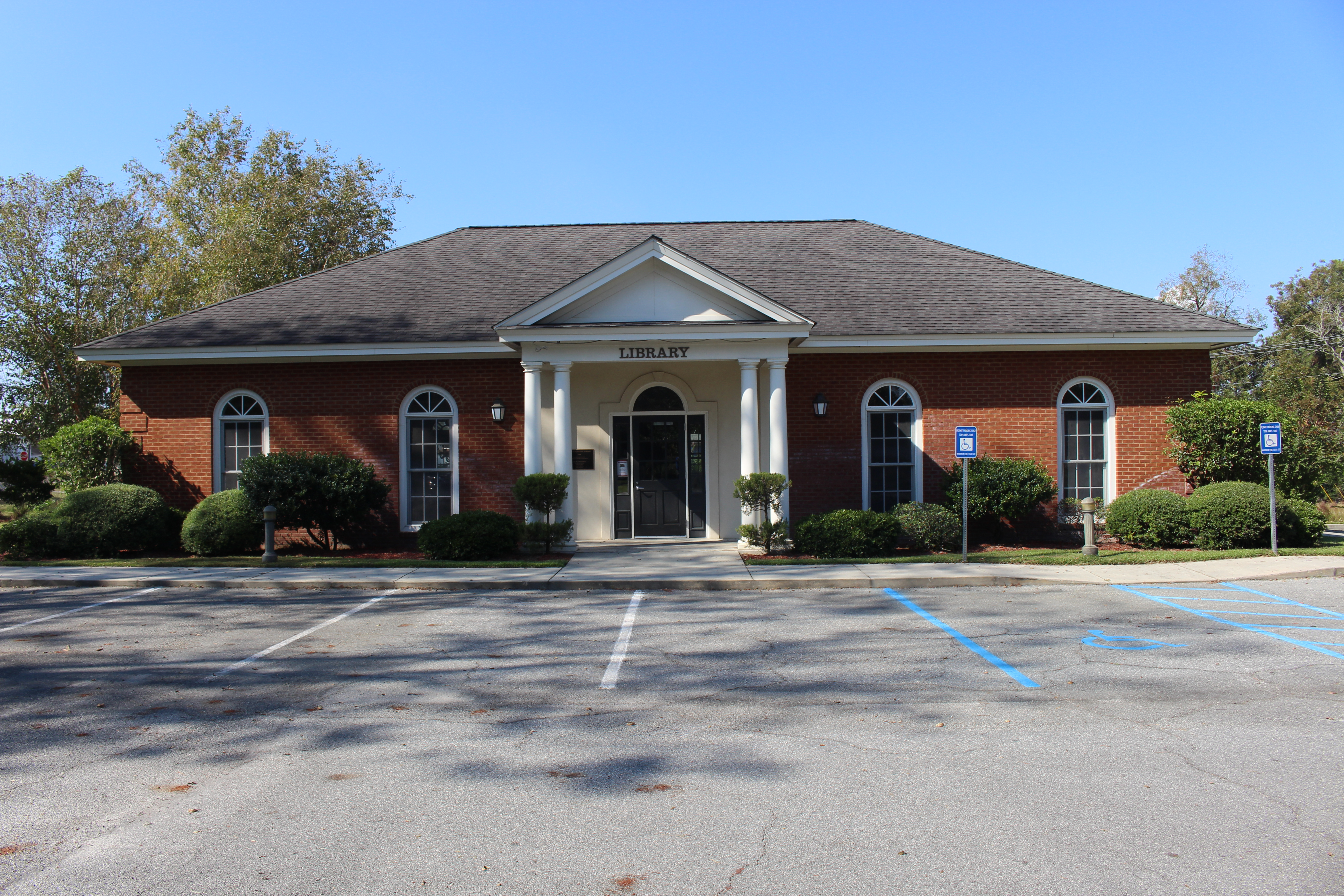 Doerun, Colquitt County, Georgia